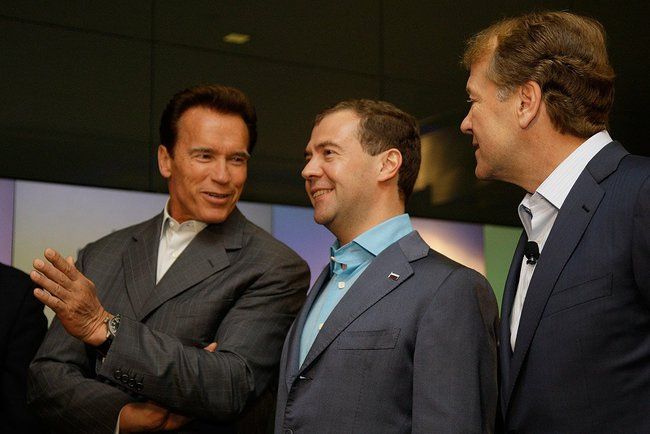 Visit to Cisco company. With Governor of California Arnold Schwarzenegger (left).